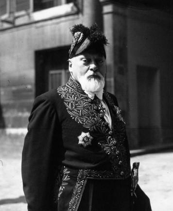 French writer Claude Farrère (1876-1957) on his reception at the Académie française in 1936.